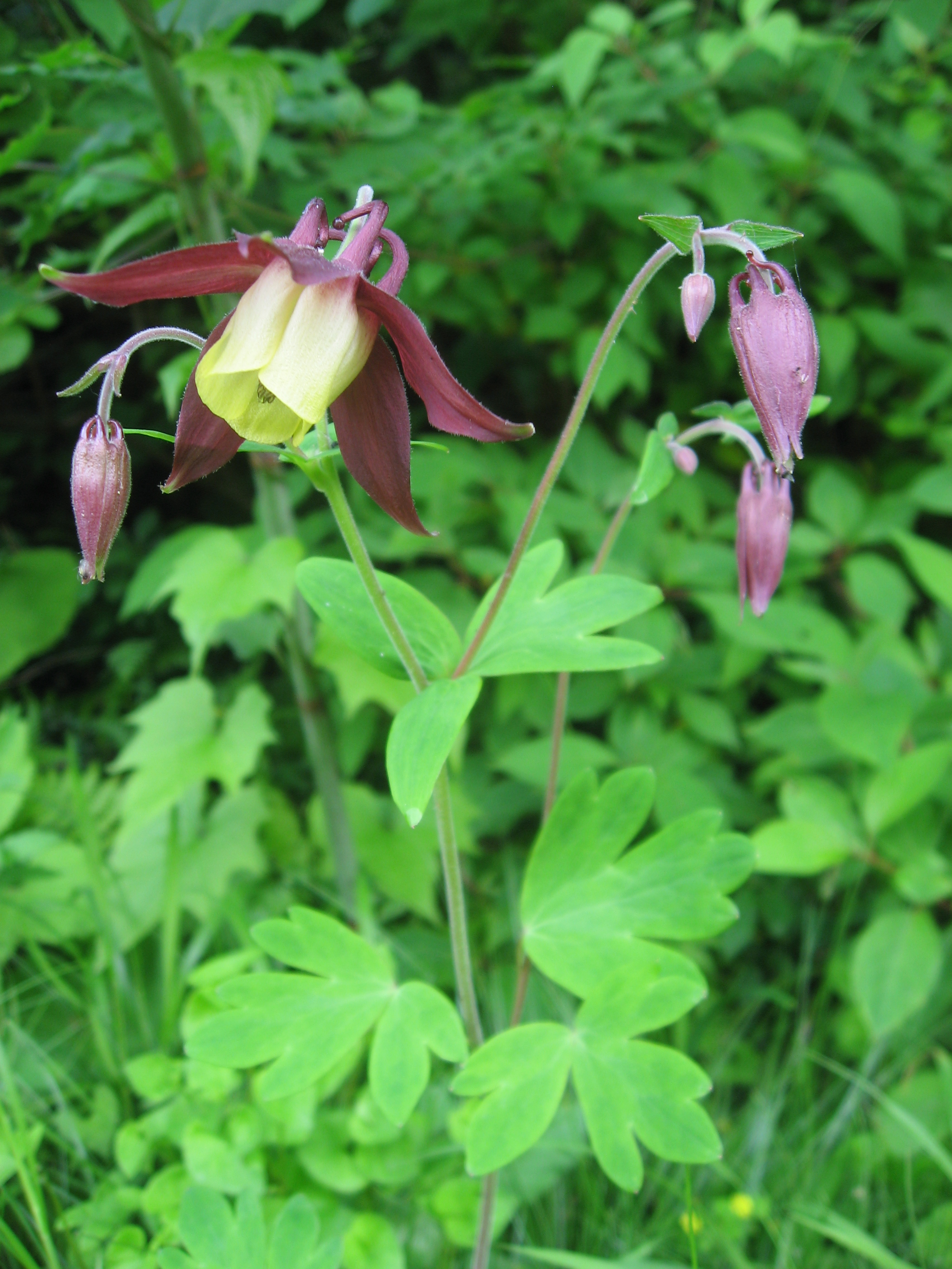 Aquilegia buergeriana var. oxysepala,Aizu area,Fukushima pref.,Japan